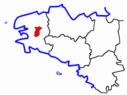 Description: Map for localisazion of cantons of Bretagne region in France Source: made by Hervé Tigier in april 2005 from another large map (published in 1990)